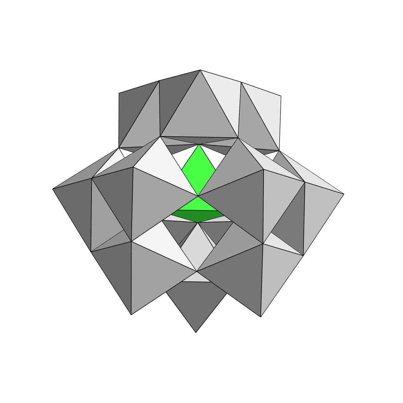 Al-13-Keggin-Komplex of Zunyite Data from: Baur W. H., Ohta T. (1982): The Si5O16 pentamer in zunyite refined and empirical relations for individual silicon-oxygen bonds, Acta Crystallographica, Section B 38, pp. 390-401 Calculation of image data: Larry W. Finger, Martin Kroeker, and Brian H. Toby, DRAWxtl, an open-source computer program to produce crystal-structure drawings, J. Applied Crystallography V40, pp. 188-192, 2007 Rendering: POVRAY